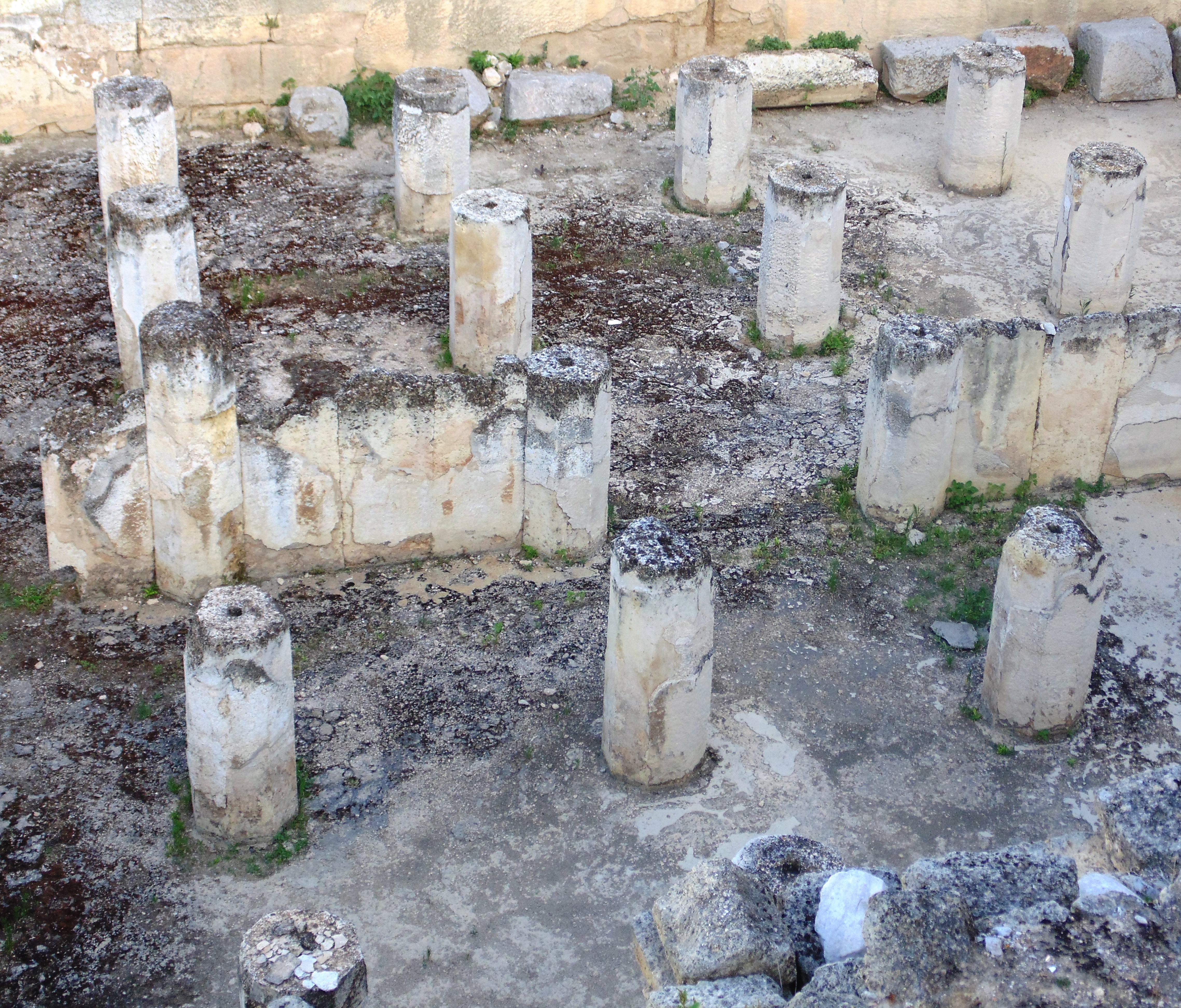 Theagenes fountain